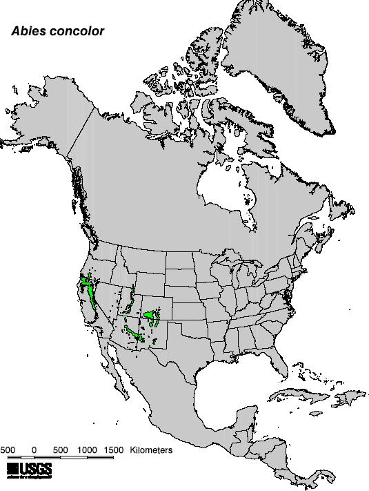 Range map of White Fir (Abies concolor)